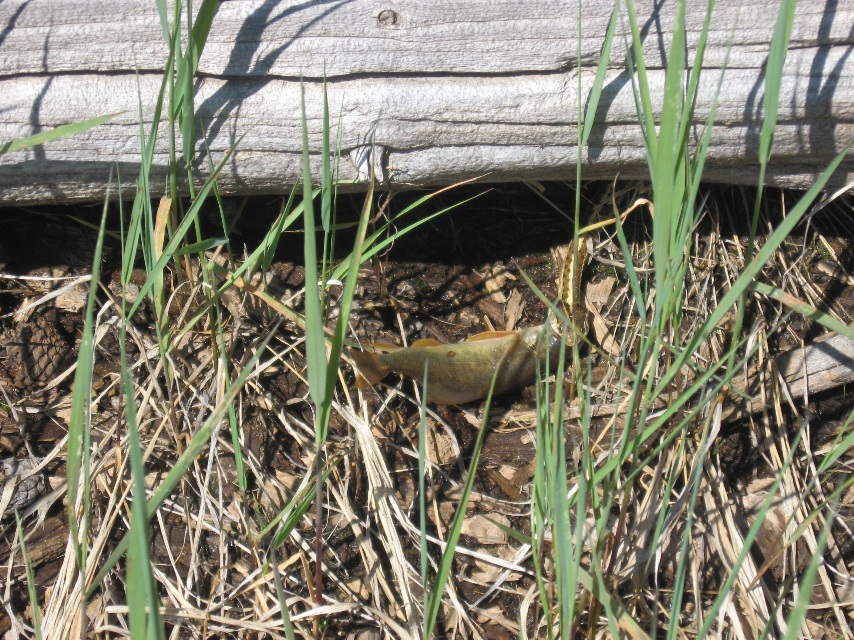 A garter snake (Thamnophis species) eating a cyprinid fish in Sawtooth National Recreation Area, Idaho.